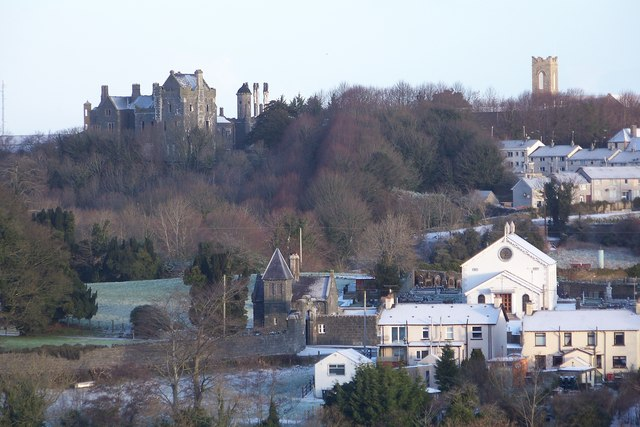 Tandragee early morning Tandragee Castle in the top left, St. Marks Church (COI) in top right and in bottom right is Tandragee Presbyterian Church to the left of it is the Gate lodge to the castle grounds.